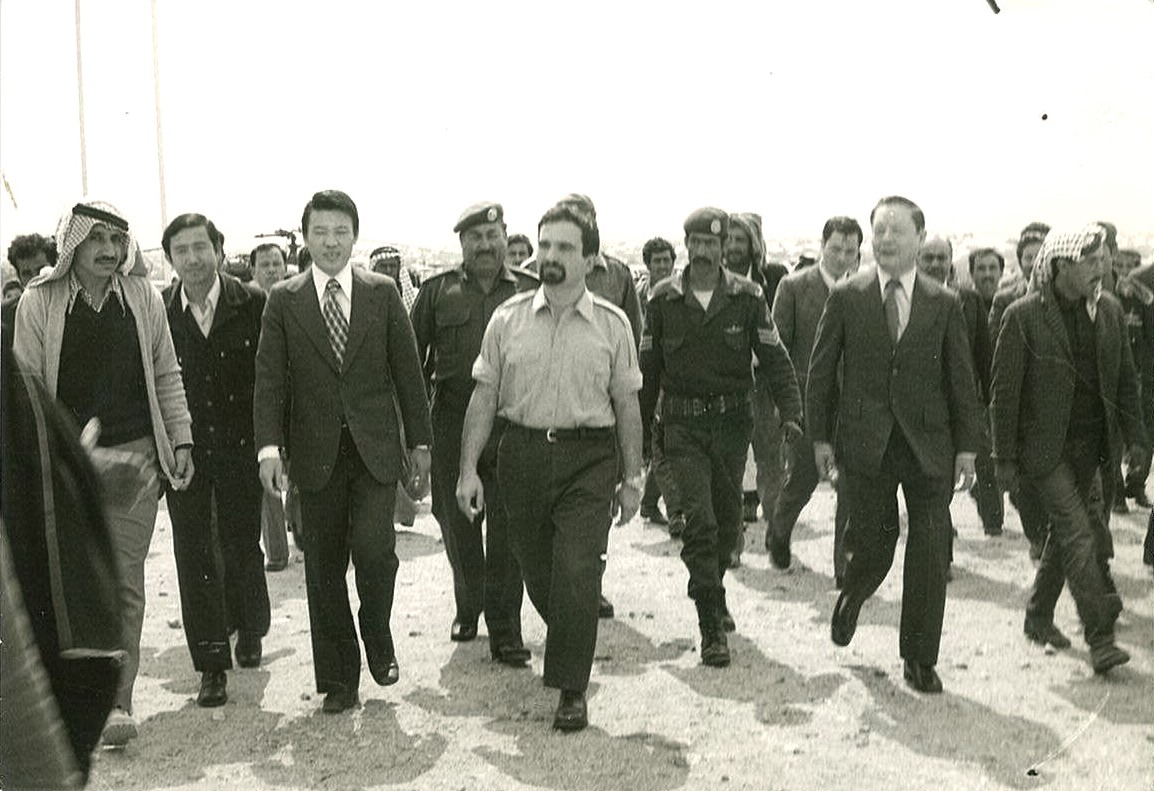 Hassan (man in light shirt), Crown Prince of Jordan, visits the construction site.